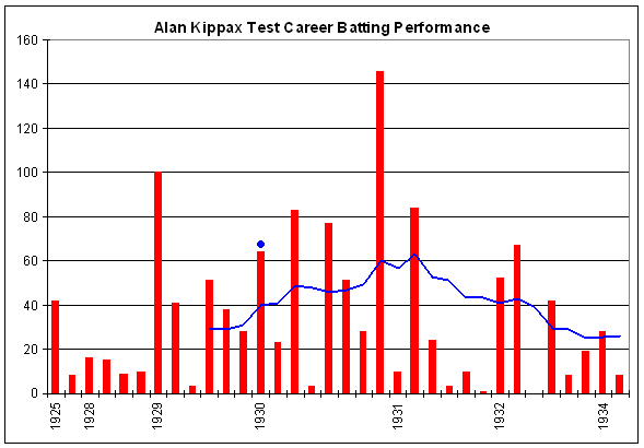 Test batting chart of Alan Kippax. Red columns are the runs in the innings. Blue dots indicate not outs. Blue line is average in the last ten innings. Thanks to Raven4x4x for providing the template.